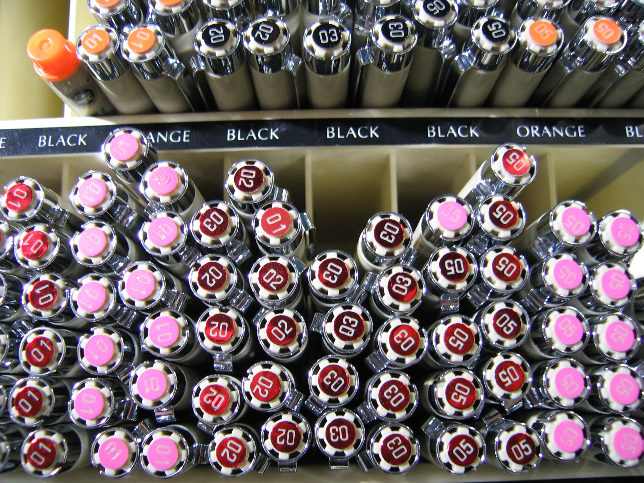 Selection of pens